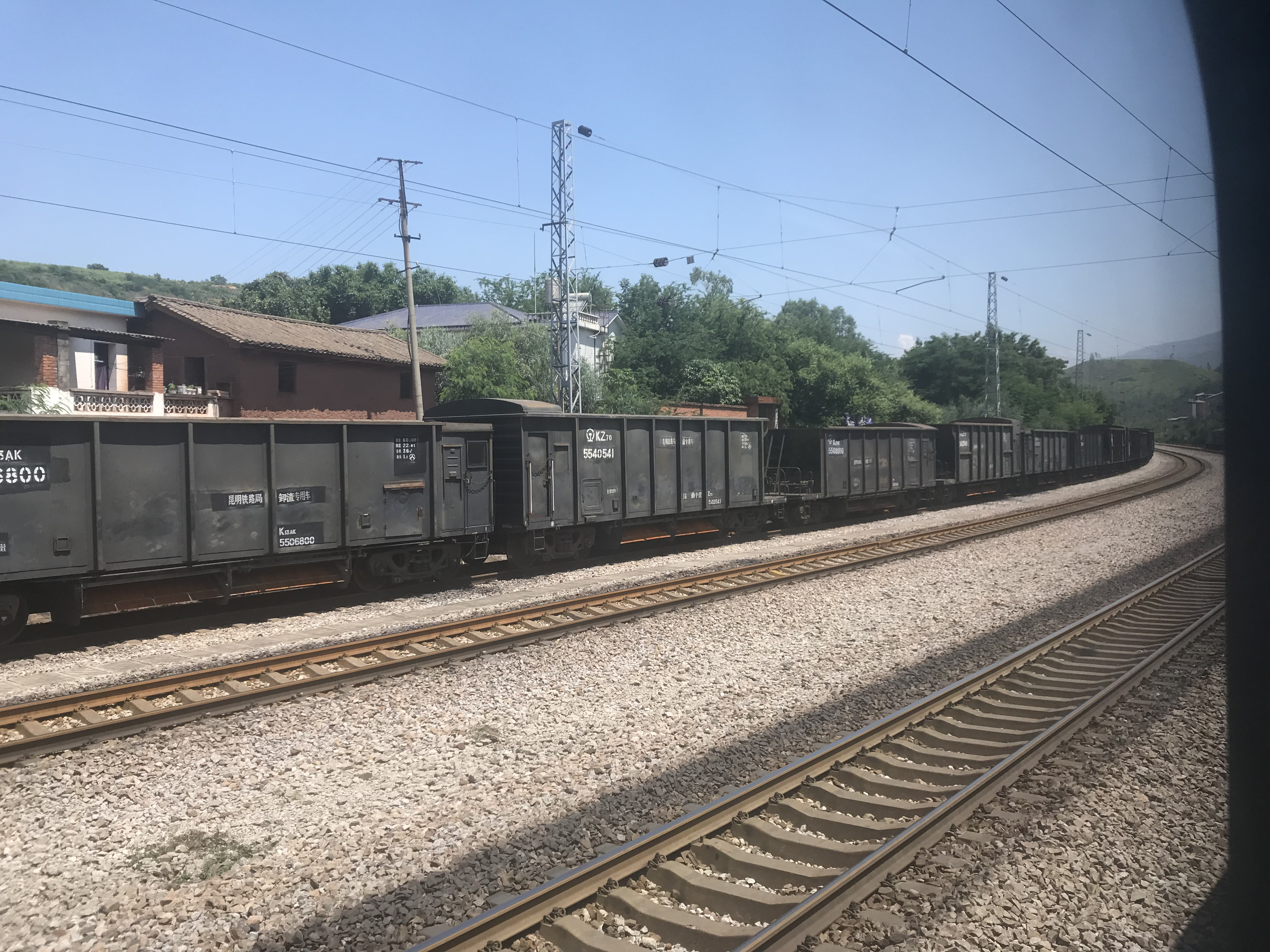 201908 Tracks at Huangguayuan Station